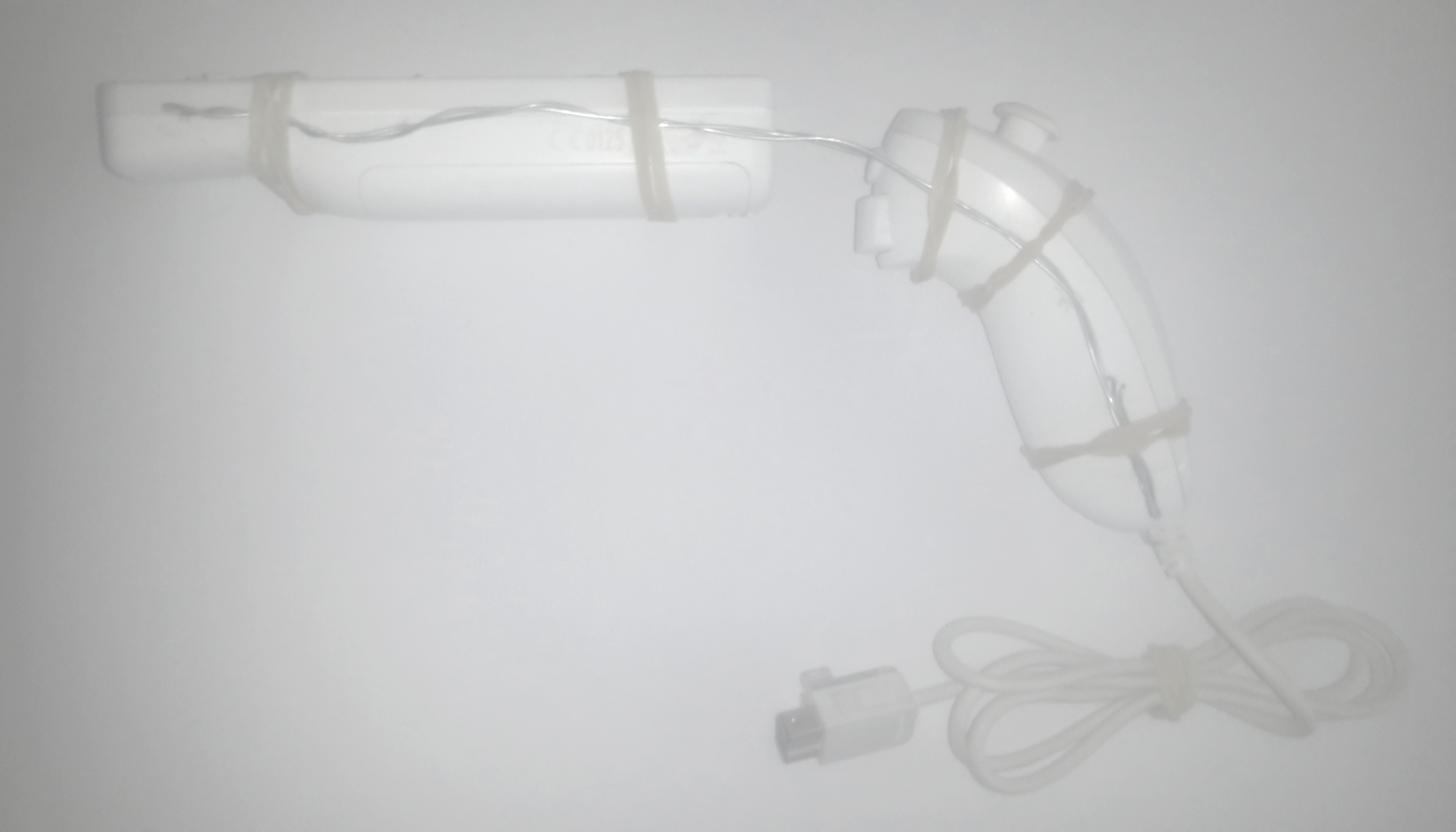 Wii Zapper prototype reconstitution